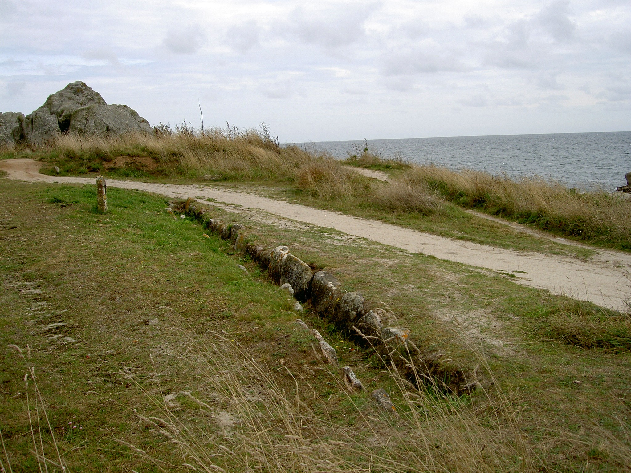 Oven for seaweed. It was used for the production of sodium hydroxide in Bretagne (Plobannalec-Lesconil, France).